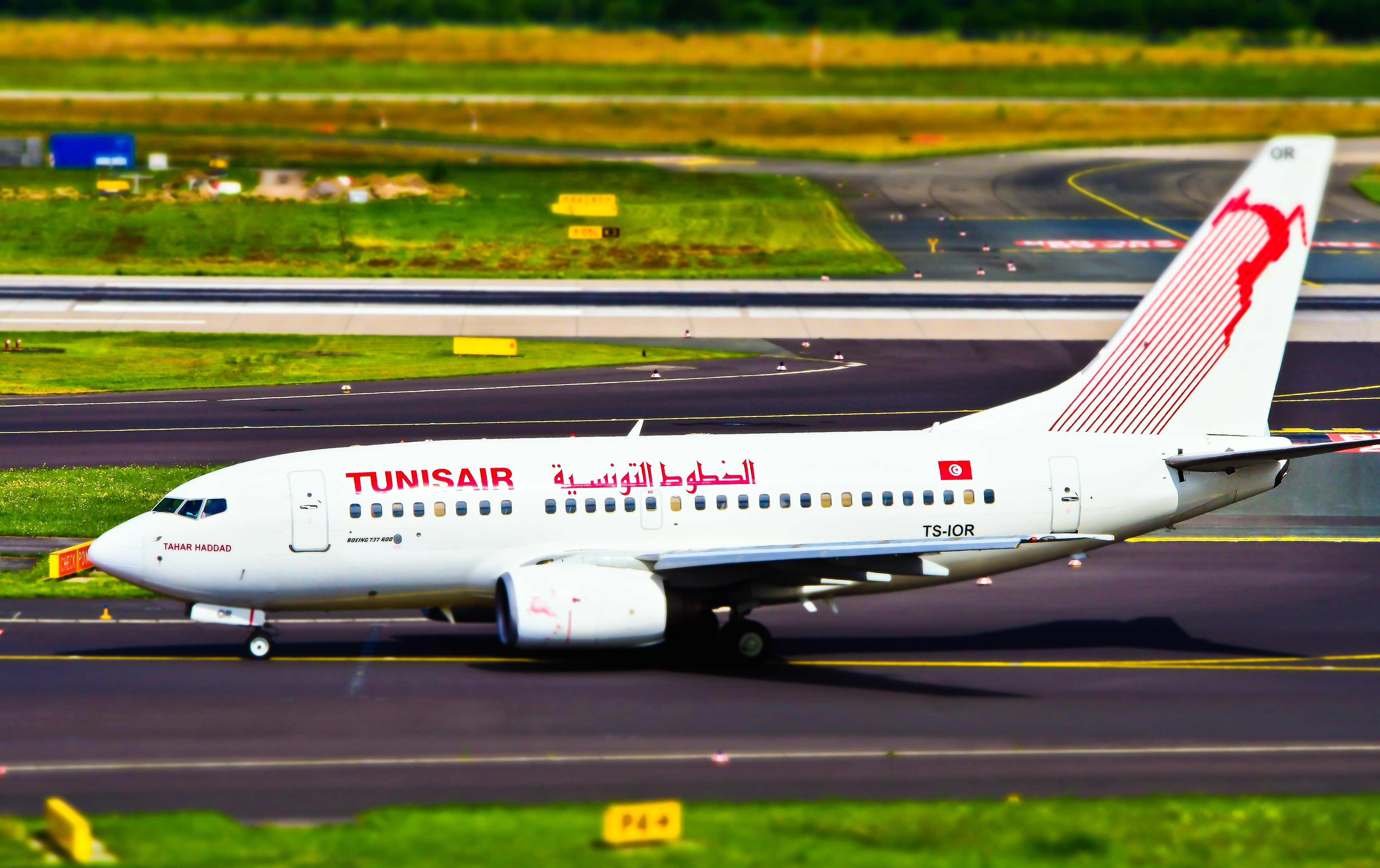 Tunisair